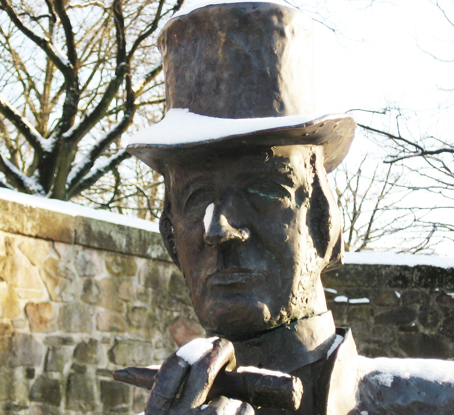 Sculpture of entrepreneur August Steinmeister in Bünde, District of Herford, North Rhine-Westphalia, Germany.